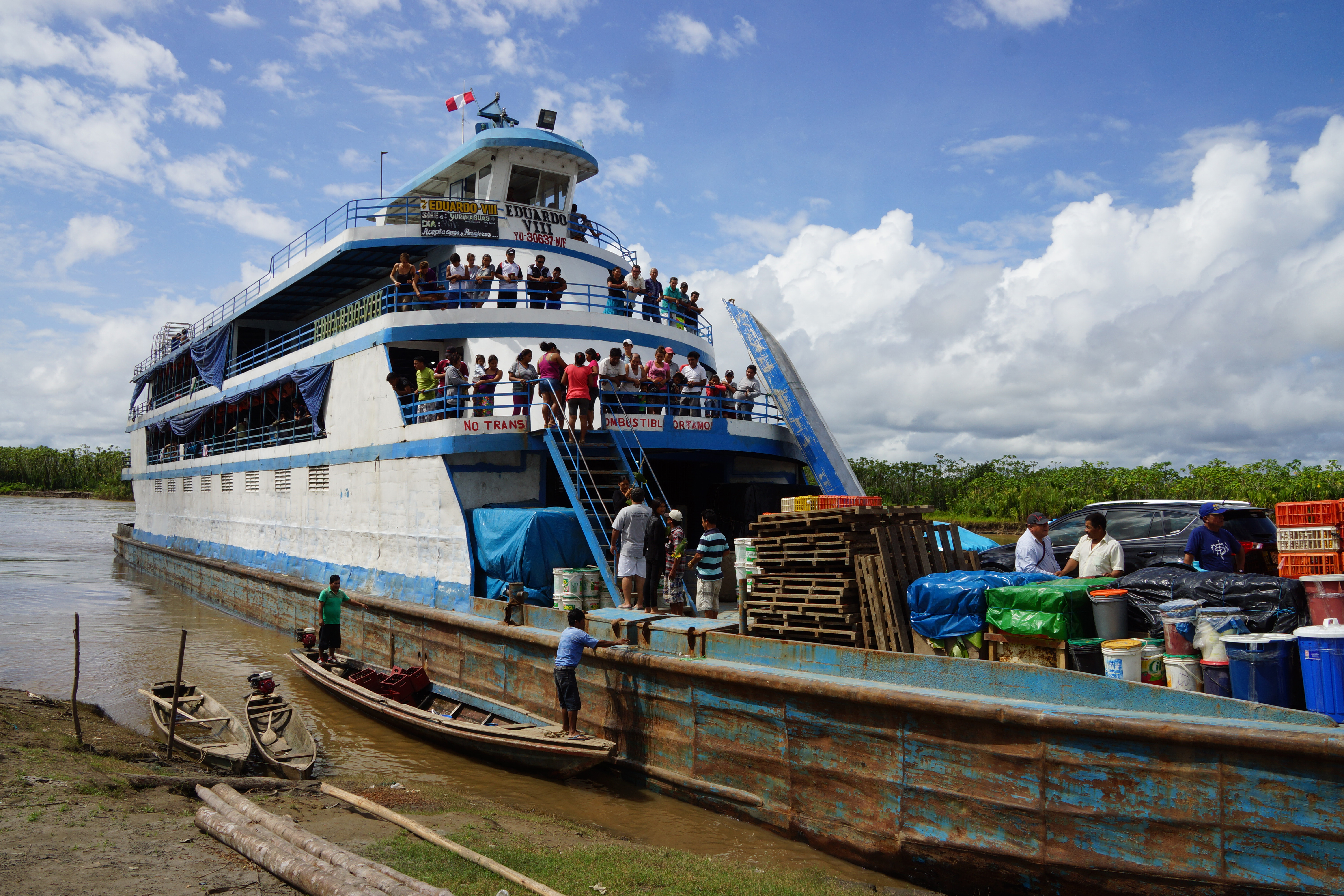 Eduardo VIII: A typical boat transporting cargo and passengers between the peruvian cities of Iquitos and Yurimaguas on the Rivers Marañón and Huallaga.